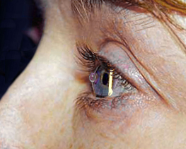 This image shows the Freediver Contactlens Sea-U. It was not taken under water, but in air. The optical part would not be visible under water since it is too similar to water. The vertical light spot appears by using a slit lamp. It is clearly understandable how small and high the lens is.